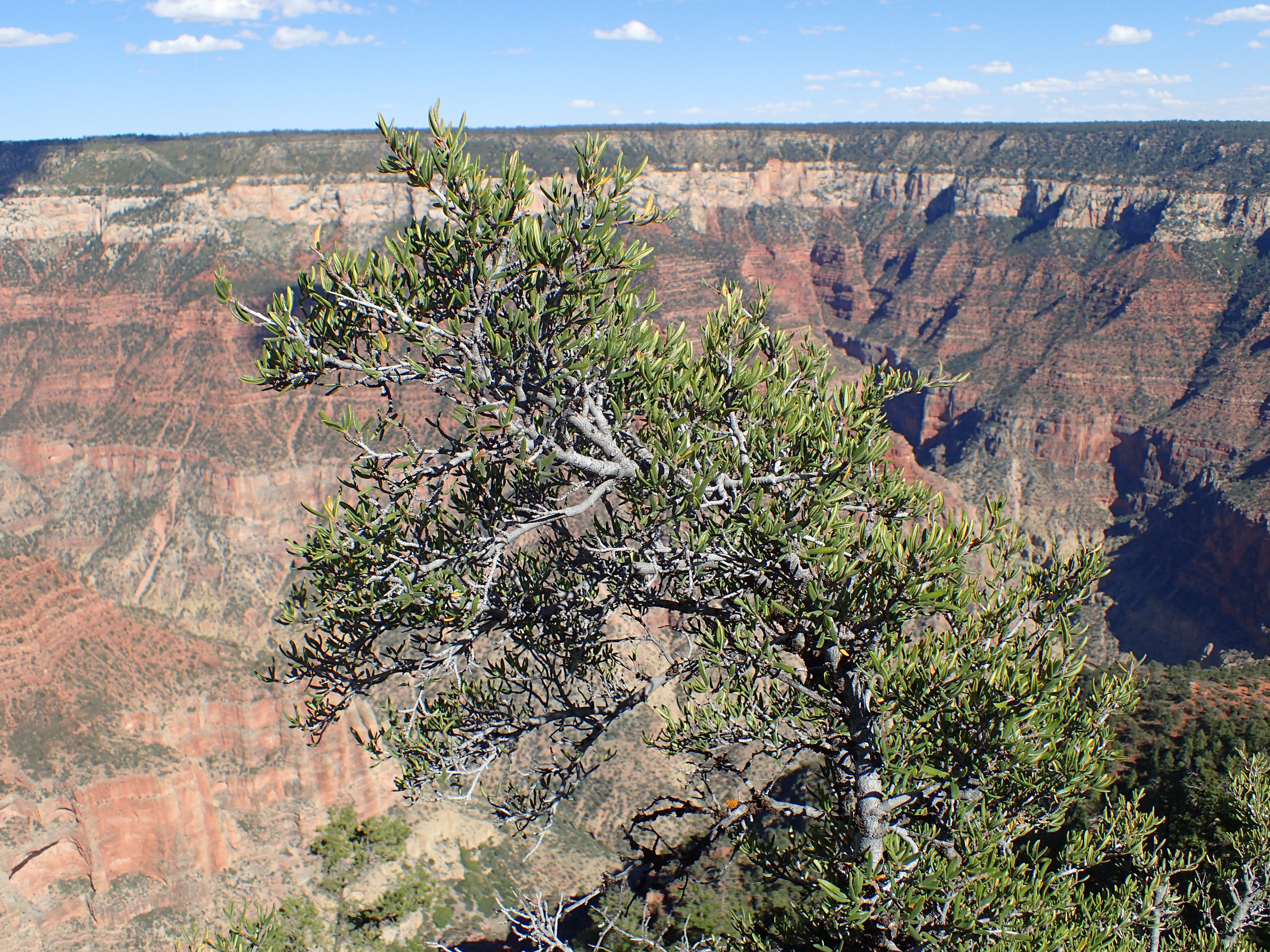 Cercocarpus ledifolius at North Rim in Grand Canyon NP, Arizona USA